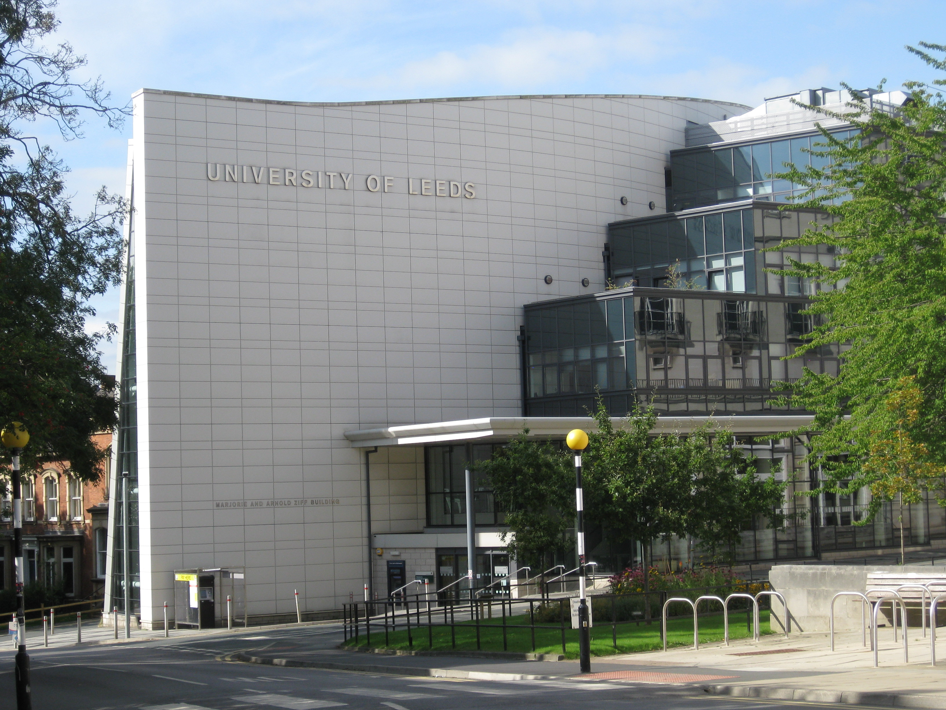 Marjorie and Arnold Ziff Building, University of Leeds. North Side, viewed from Cavendish Road. The other road is Beech Grove Terrace.